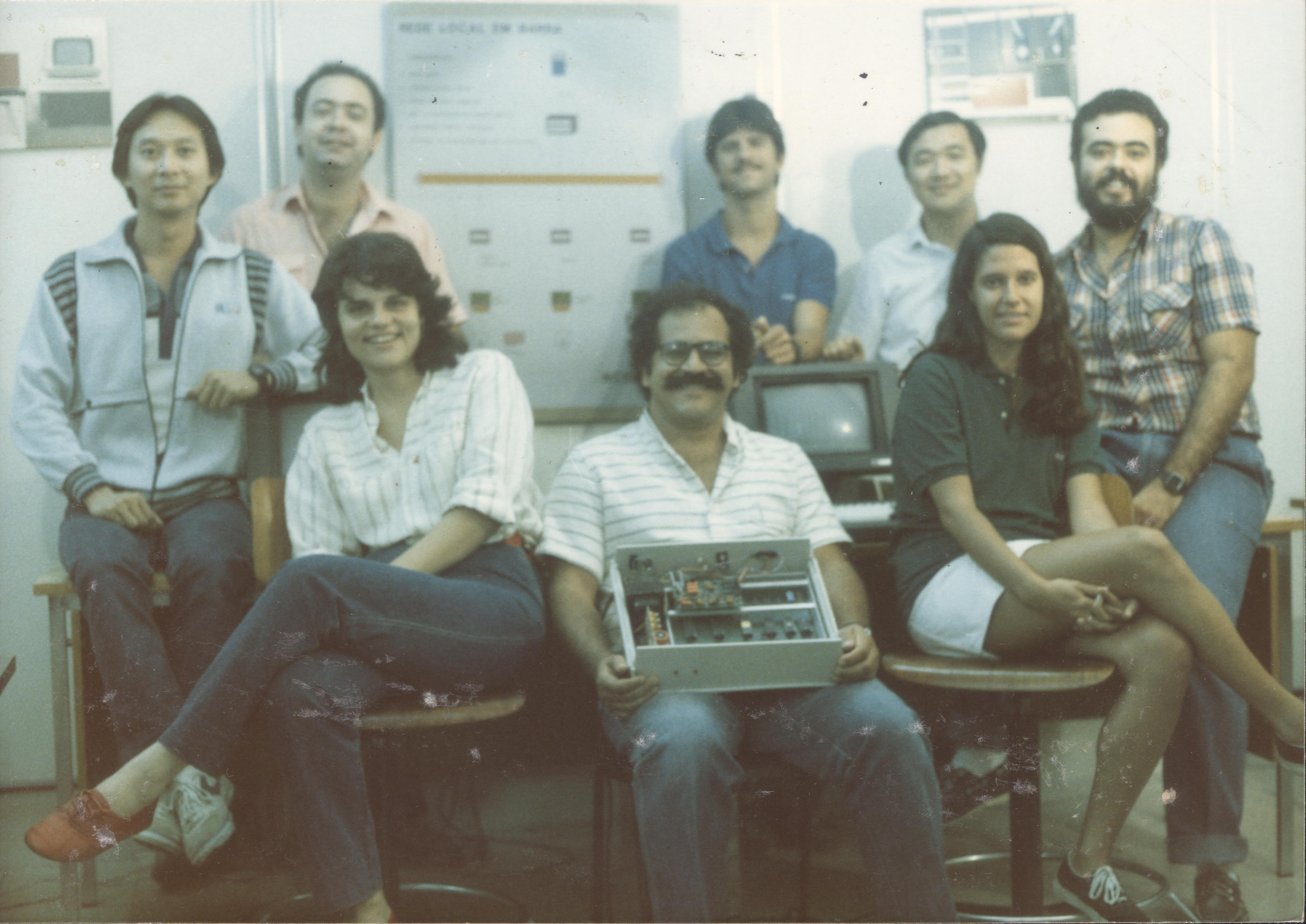 Equipe do Projeto rede local em barra -Citibank